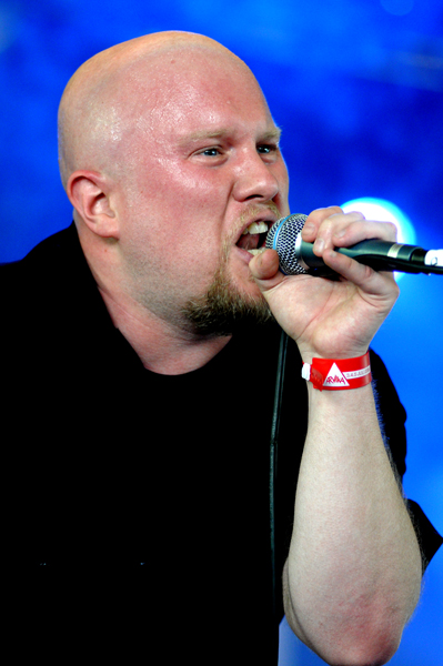 Tom Shear performing as Assemblage 23 at Arvika Festivalen 2008, Arvika, Sweden. Photography: Daniel Roos, Studio Motljus 2008.